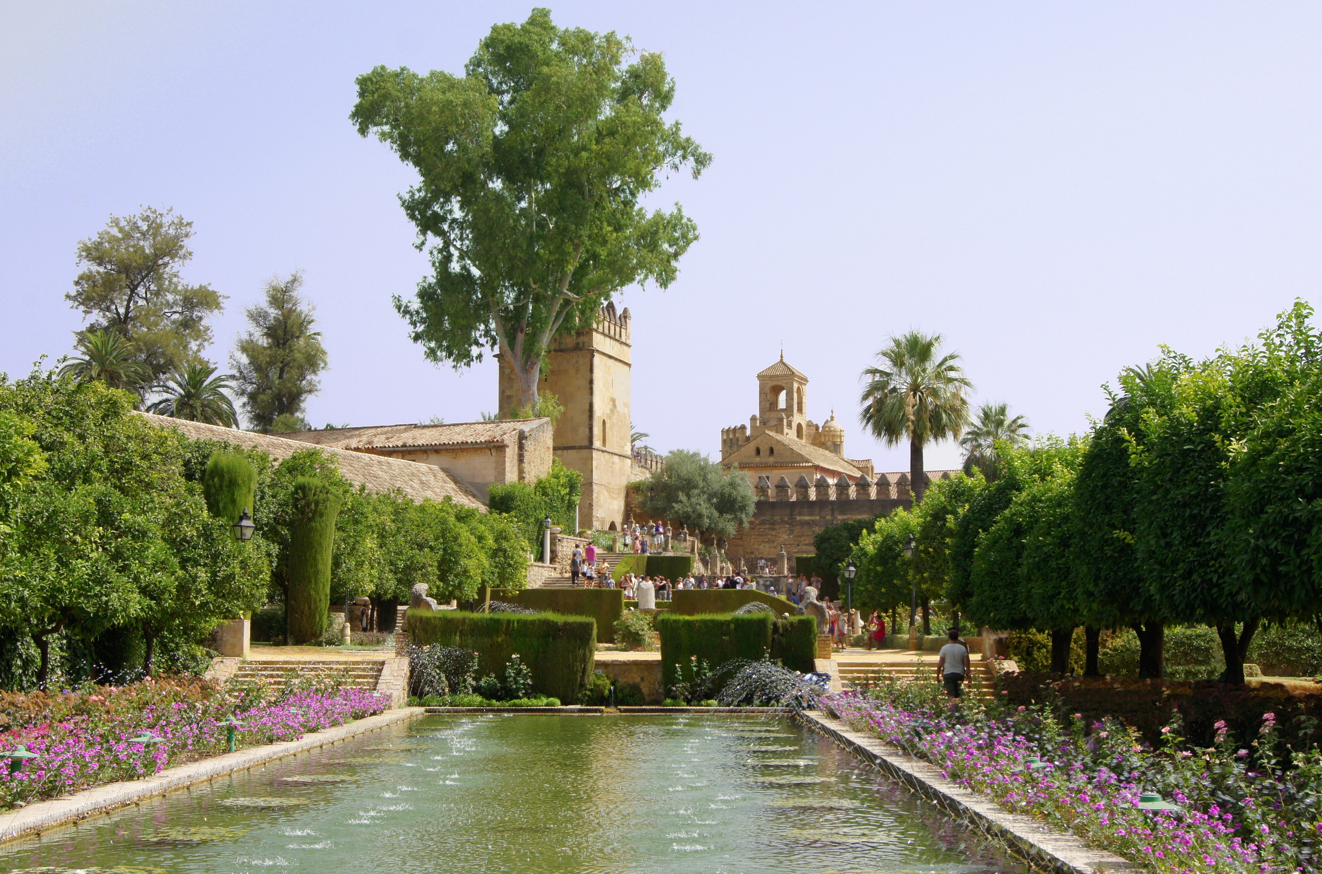 Part of the gardens of the Alcazar de los Reyes Cristianos of Cordoba, Spain. The Torre del Homenaje and in background, the Torre de los Leones